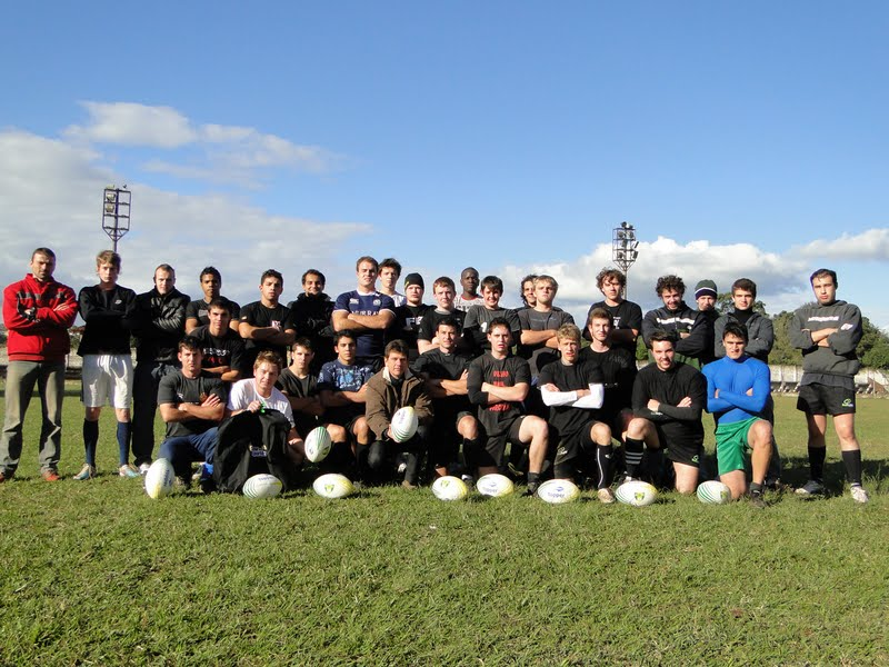 2011 Centauros' squad